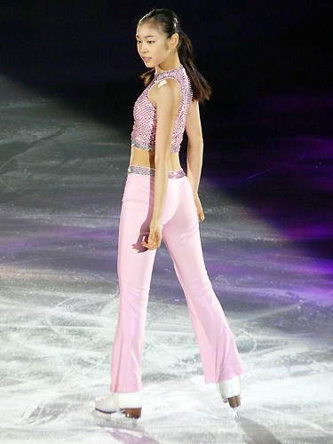 Kim Yu-Na during her "Just a Girl" exhibition program at the 2007 Cup of Russia